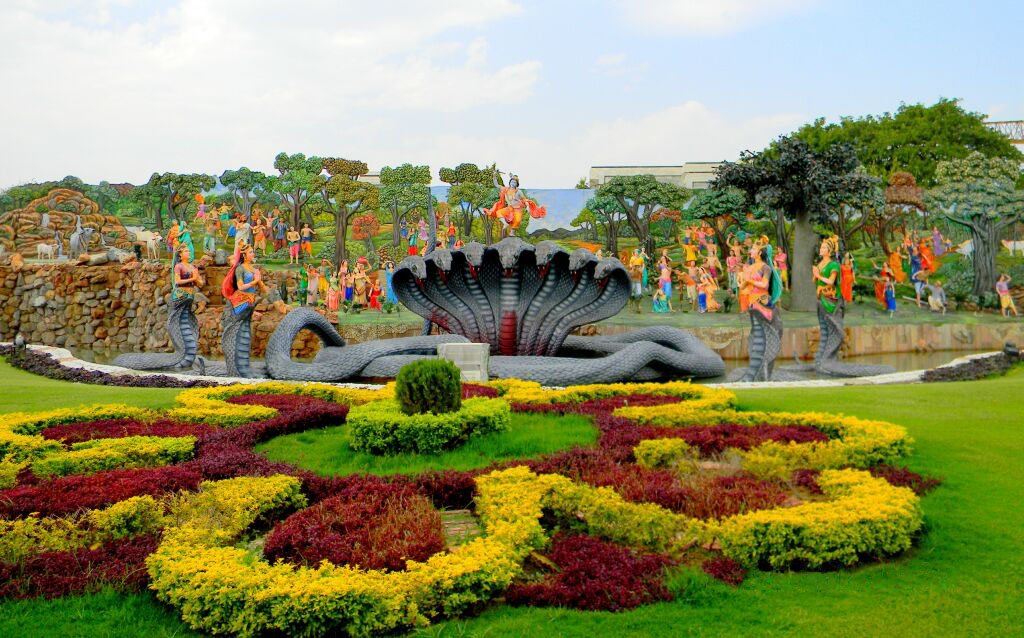 Krishna dancing on Kaliya giant snake